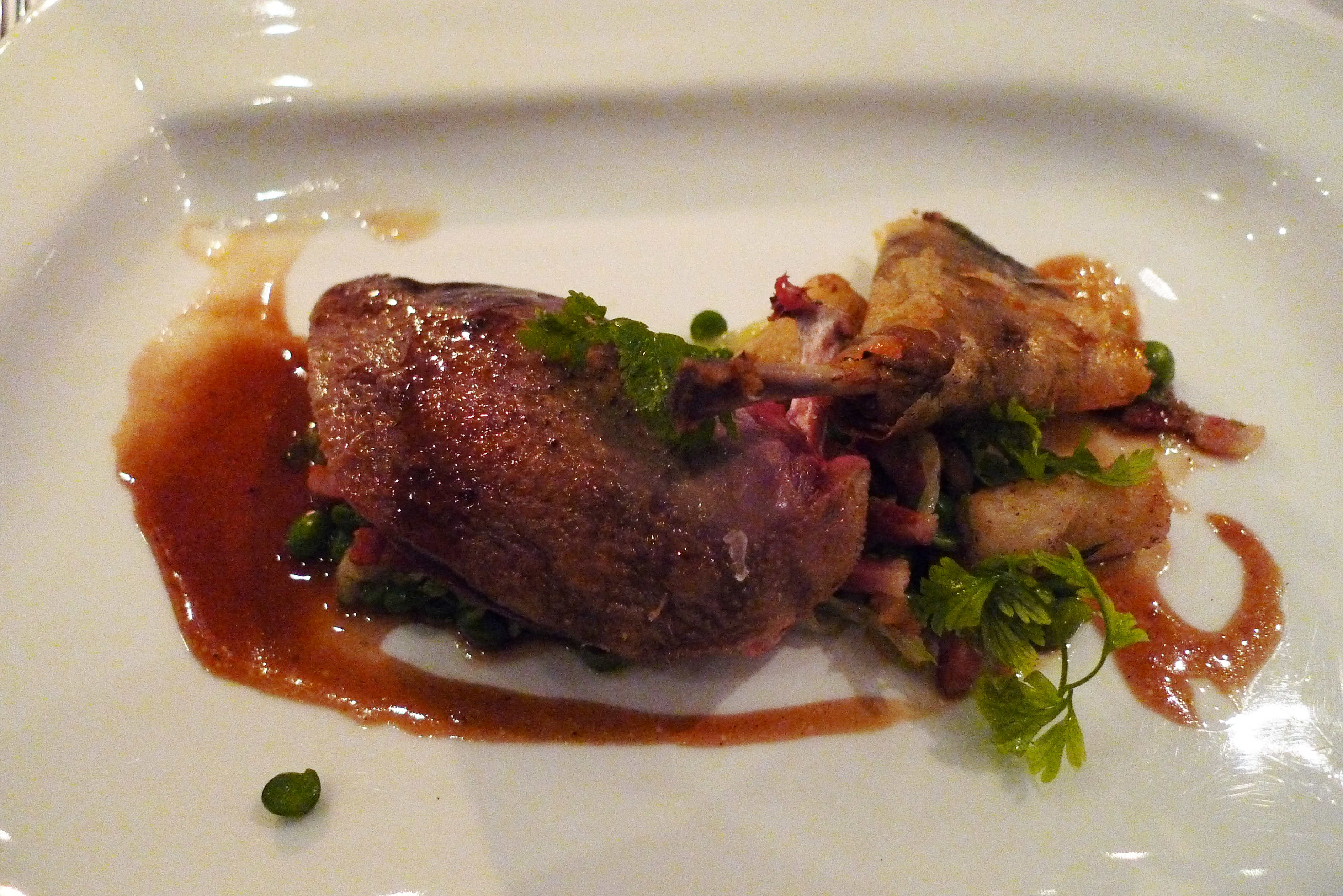 A starter of squab breast and its leg, with a ragout of peas and bacon, confit celeriac and walnut sauce. Really very disarmingly red inside, but very nice. At Patterson's, Mill Street.